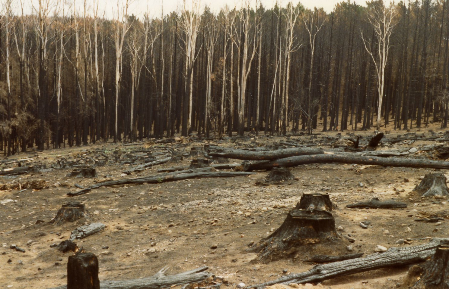 After a bush fire Pine trees die and have to be logged very quickly otherwise they are useless. They have already made inroads here, the natives will recover or self seed.